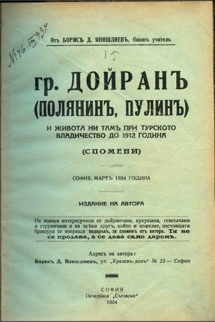 Doyran